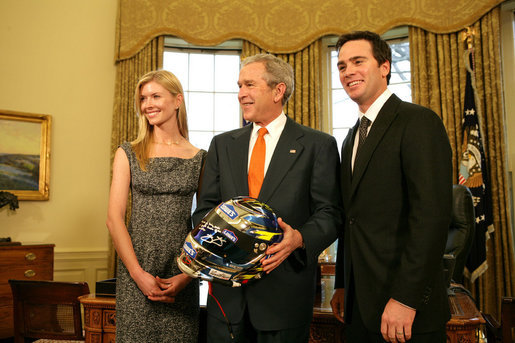 George W. Bush, Jimmie Johnson and Chandra Johnson